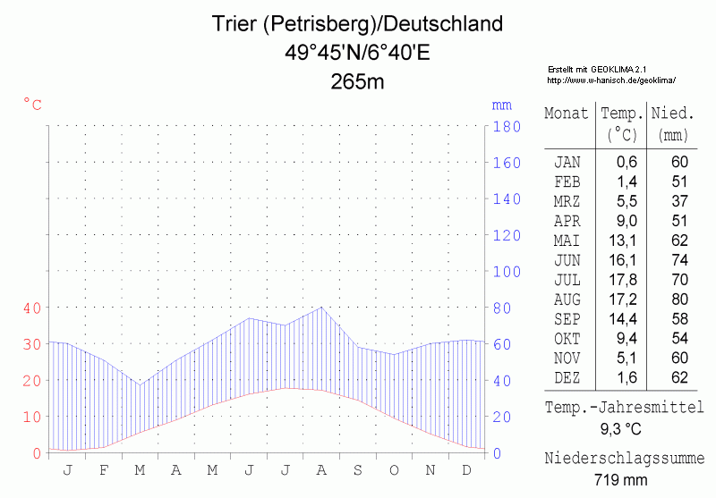 climate chart in the format by Walther and Lieth, metric, °Celsisus and millimeters, made with Geoklima 2.1